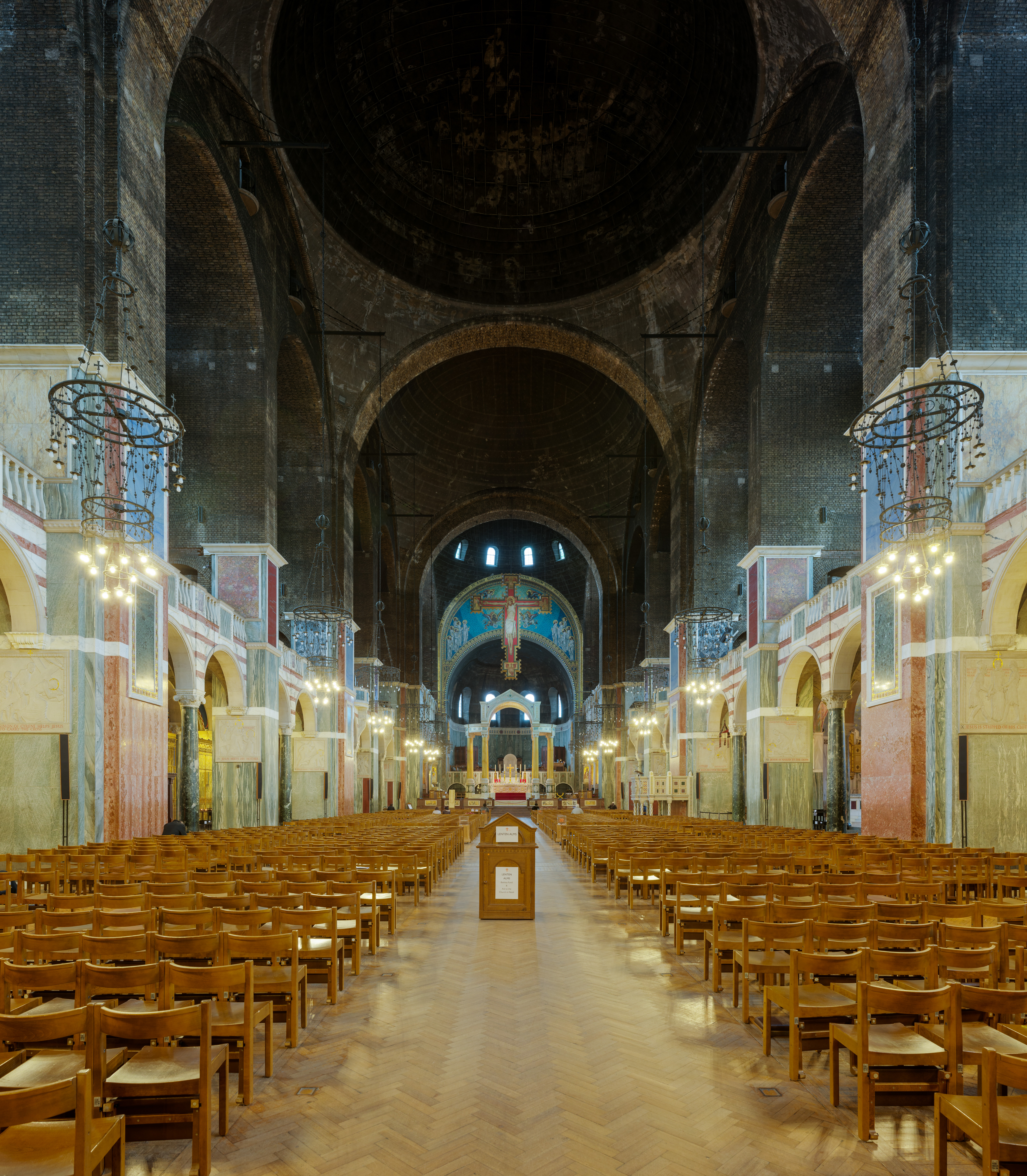 The nave of Westminster Cathedral, looking south towards the altar.